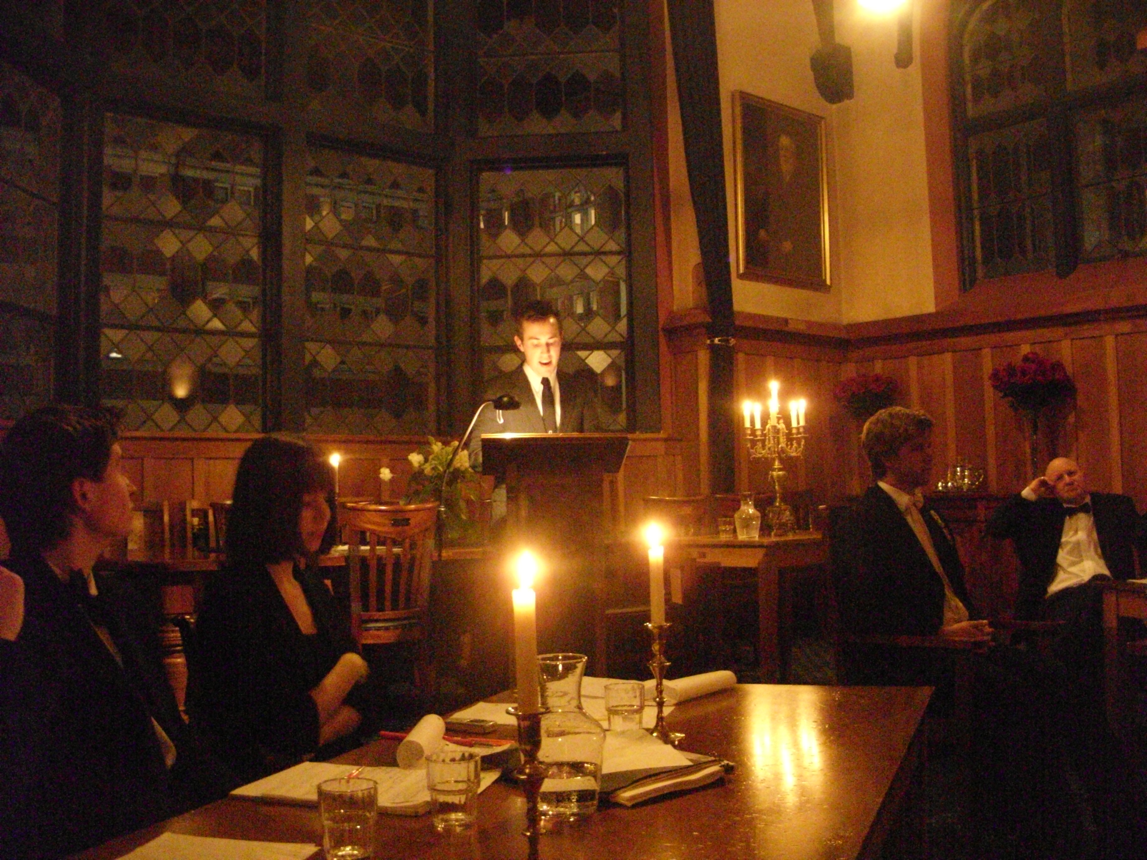 Scene from the Knox College, Otago Master's Cup debating competition between the college's Junior and Senior Common Rooms